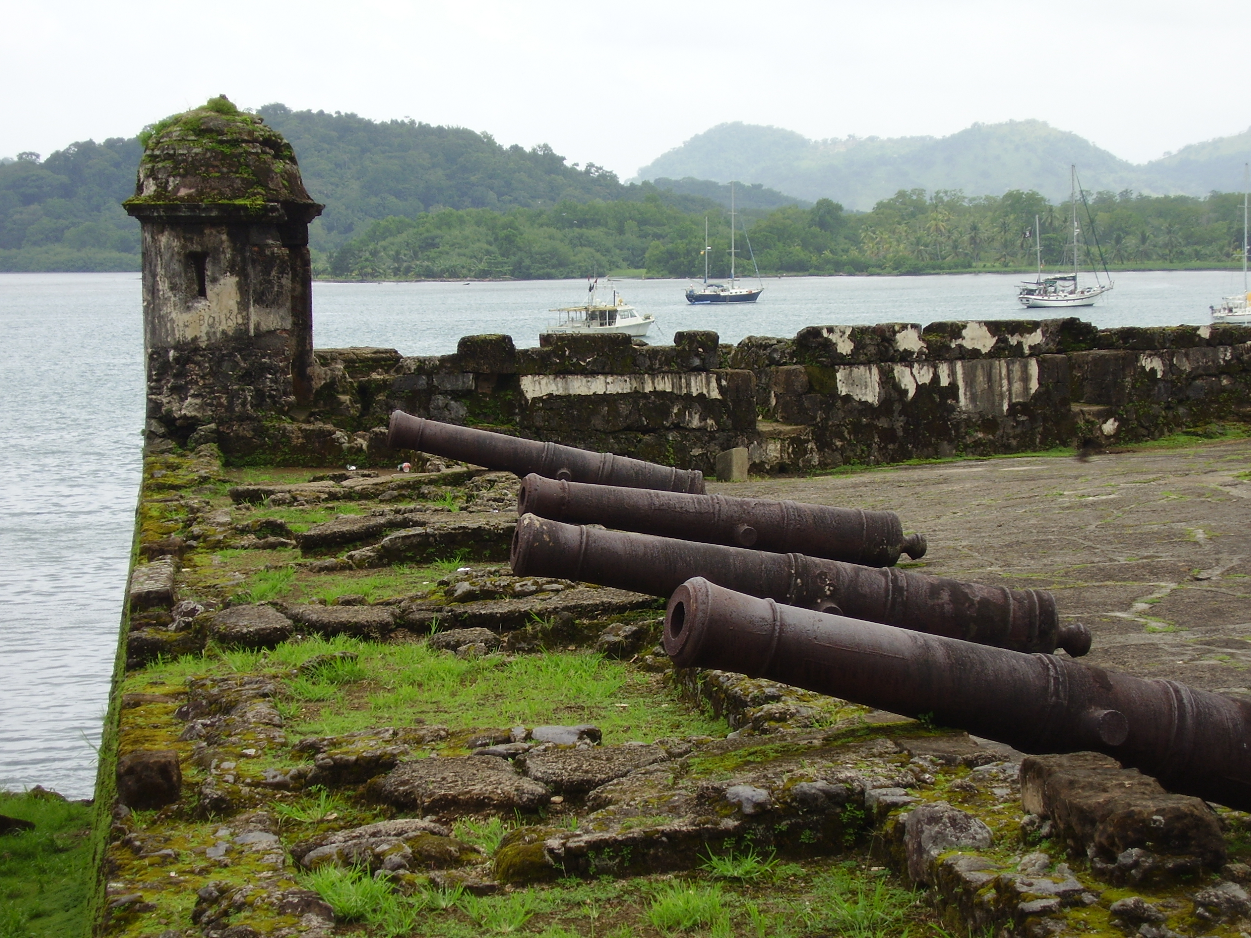 Santiago Battery in Portobelo, a fortification in the Atlantic coast in Panama.